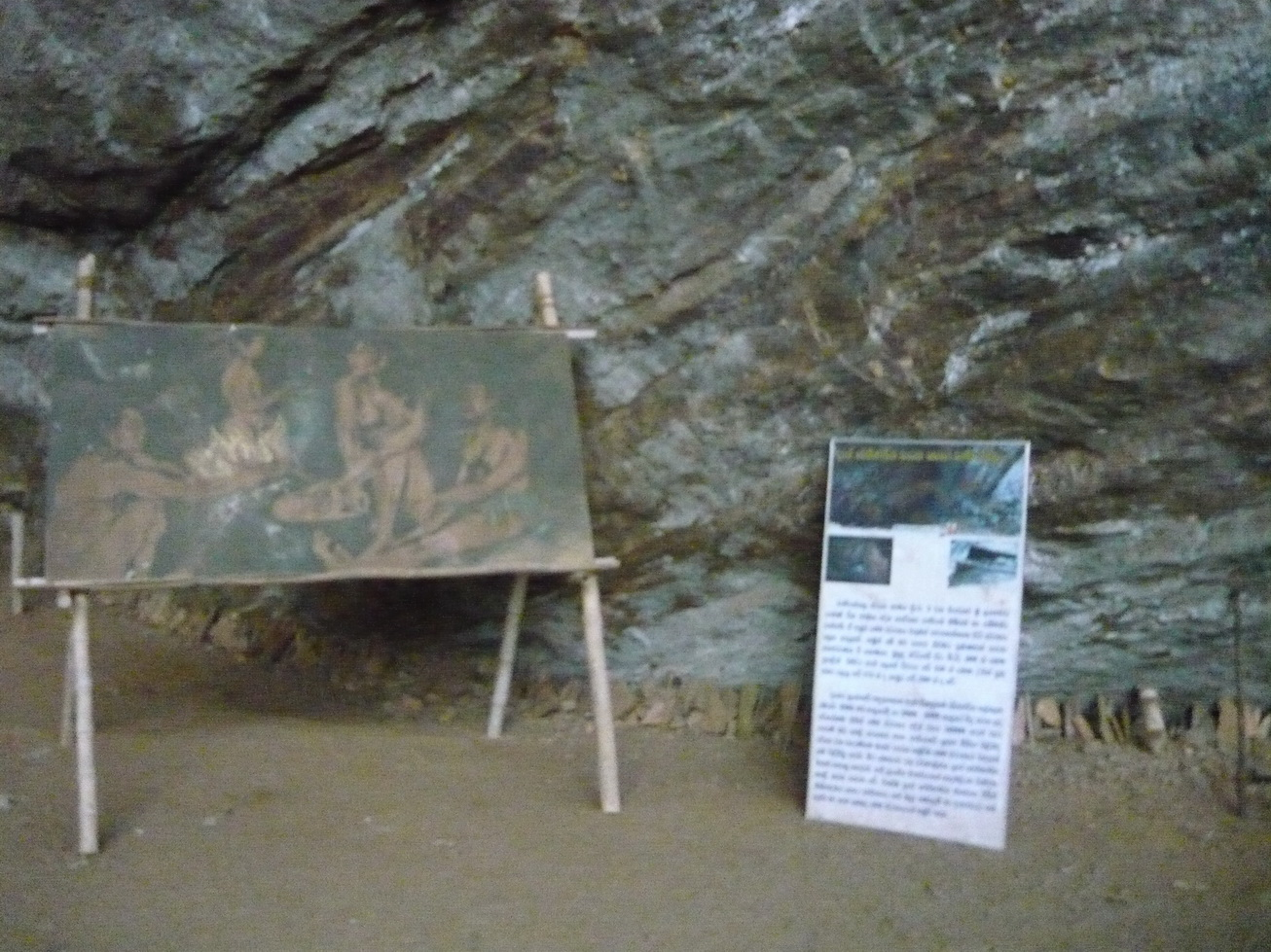 Balangoda Man